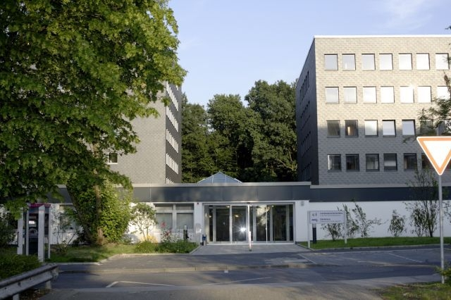 Building of the Special Language School (LSI) of Northrhine-Westfalia in Bochum